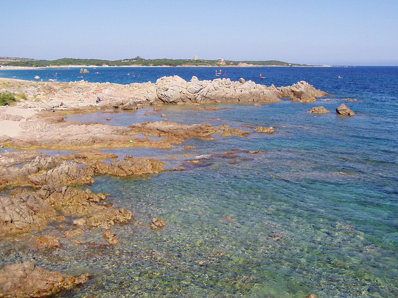 Coast in Vignola Mare in Gulf of Asinara, Sardinia, Italy.